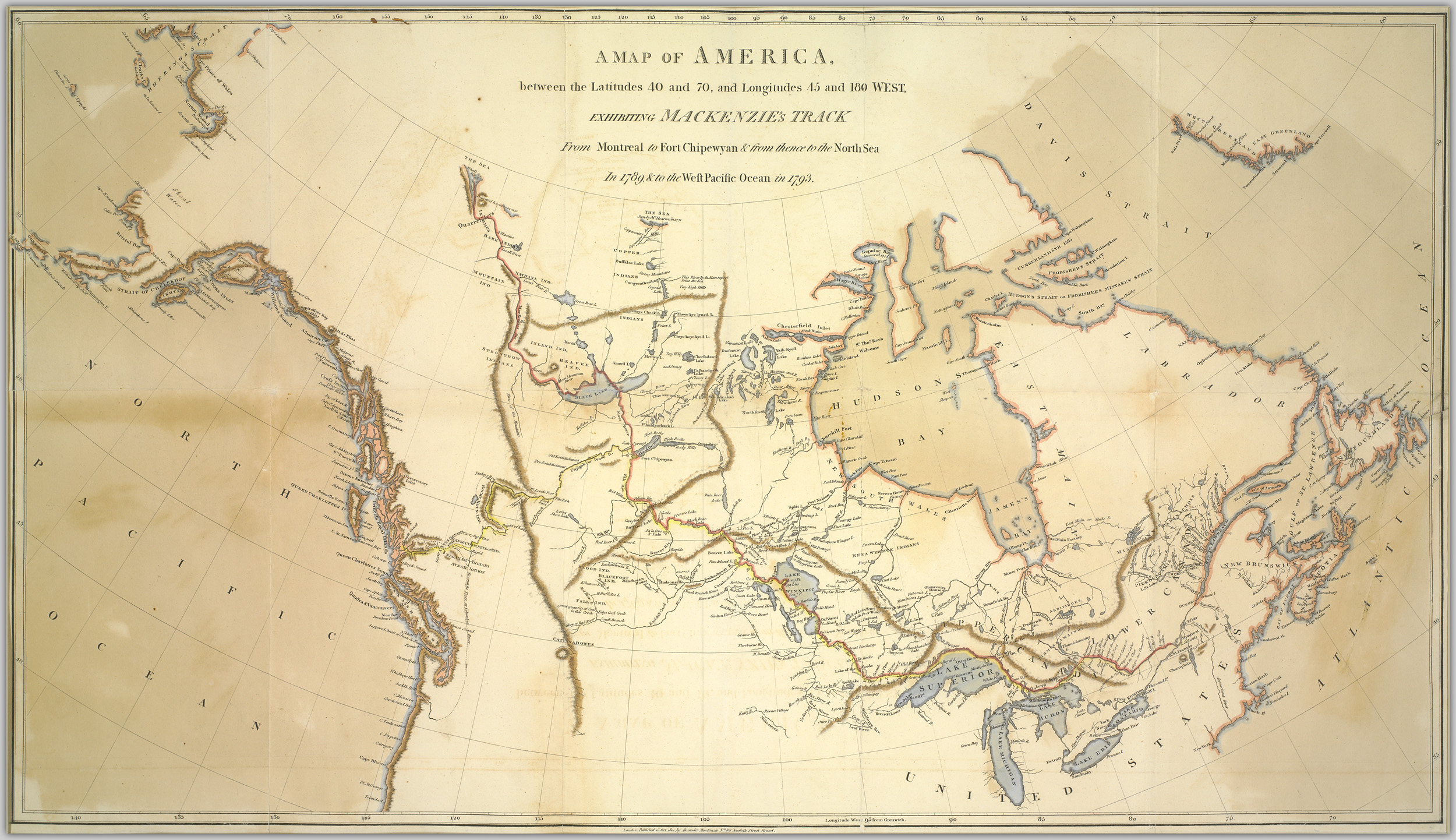 No known copyright restrictions. Please credit UBC Library as the image source. For more information, see Creator: Mackenzie, Alexander, 1764-1820 Date Issued: 1801-10-13 Source: Original Format: University of British Columbia. Library. Rare Books and Special Collections. Andrew McCormick Maps and Prints. Permanent URL